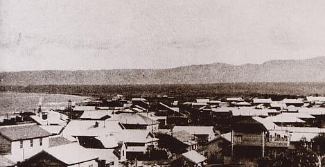 View of Ushiro(Orlovo Орлово) in Karafuto